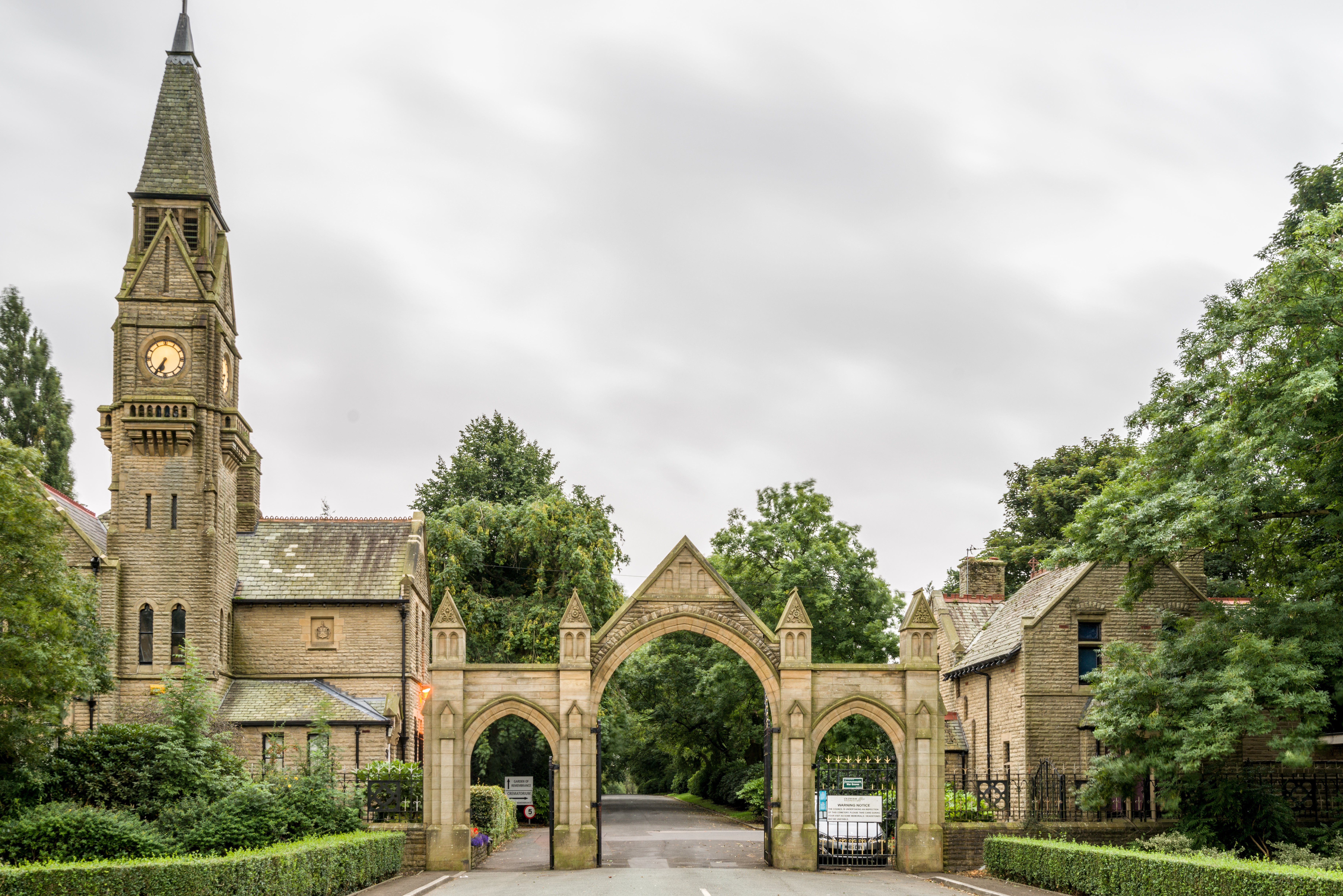 Lodges And Gates To Hollinwood Cemetery Wikidata has entry Q26512862 with data related to this item.